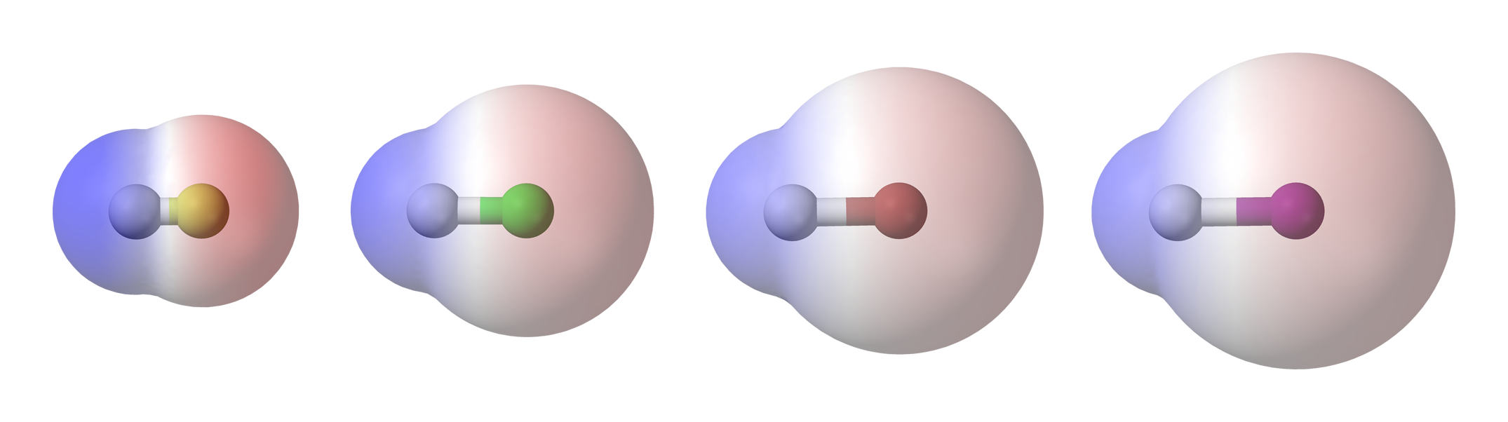 A montage of four van der Waals' surfaces coloured according to charge, superimposed on a ball-and-stick models of the hydrogen halide molecules, HX (from the left, HF, HCl, HBr and HI). Red represents partially negatively charged regions, blue represents partially positively charged regions, and white represents neutral (uncharged) regions. Created in Accelrys DS Visualizer 1.5, edited with Photoshop Elements 3.0.